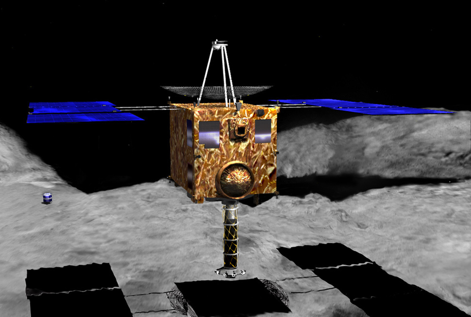 I (J.R.C. Garry) drew this in June 2000 and gave it freely to Dr Hajime Yano of ISAS to use as he saw fit. It supersedes all other images I drew for the ISAS team.